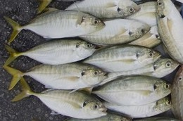 Yellowtail scad netted in Palau